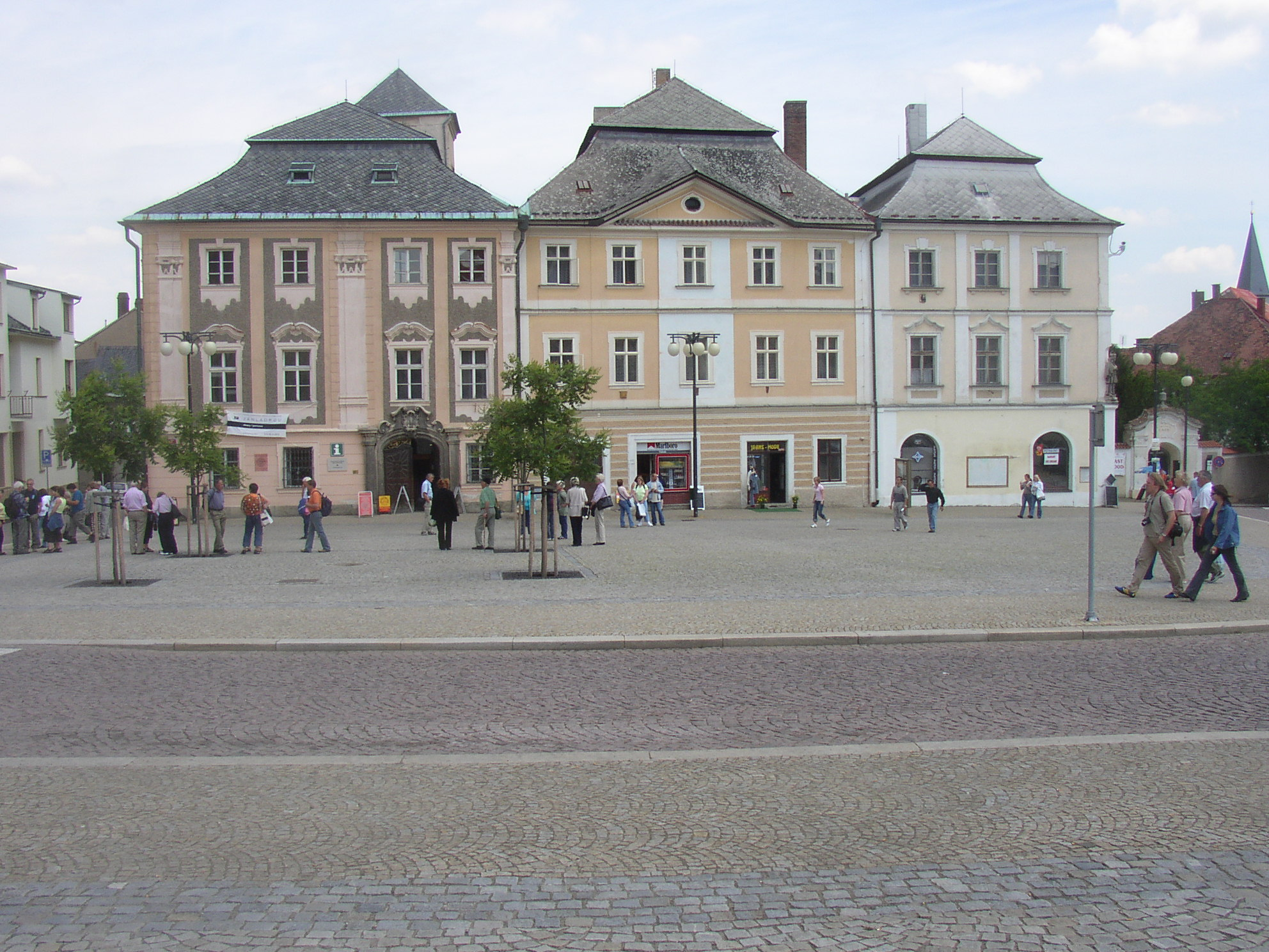 East side of Sankturin's House in Palackého Sq in Kutná Hora, Czech Republic. Sankturin's House is a medieval house with a tower at the back. There are the City Culture and Information Centre and Felix Jenewein Gallery in the house.